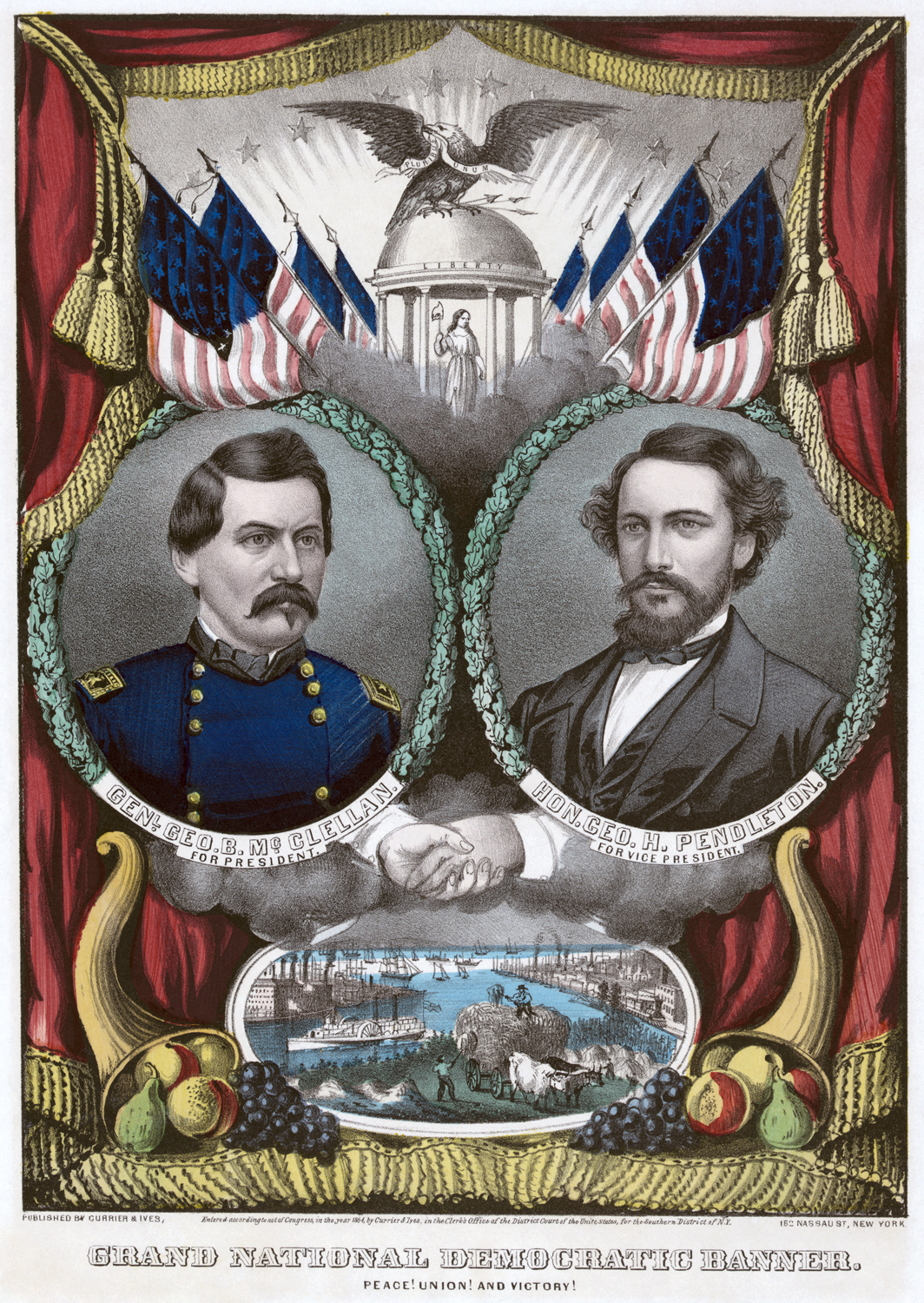 United States Democratic presidential ticket, 1864. Print shows a campaign banner, almost identical to the "Grand National Union Banner" (no. 1864-13) except for the inclusion of portraits of Democratic candidates George B. McClellan and George H. Pendleton, two additional flags above the portraits, and a vignette below of a busy harbor near a shore crowded with signs of prosperity, including factories, a locomotive, and a hay-wain. Also introduced in this version are clasped hands below the portraits. 1 print on wove paper : lithograph with watercolor ; image 32.5 x 22.6 cm.